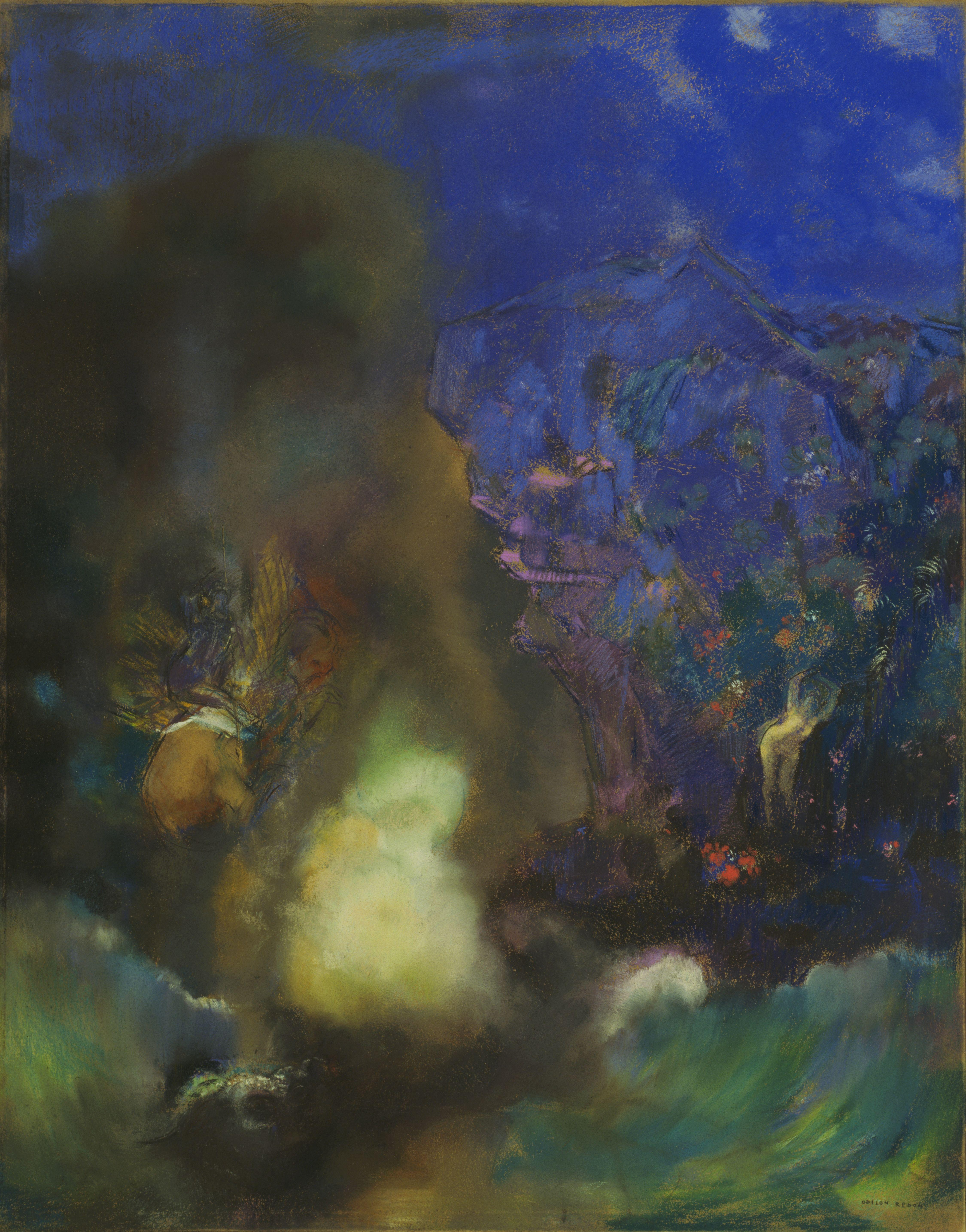 Roger and Angelica, Pastel, 92.7 x 73 cm